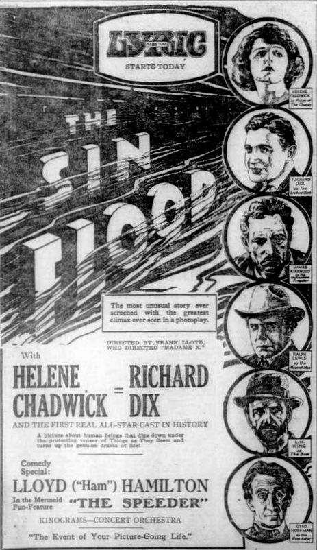 Newspaper advertisement for the American drama film The Sin Flood (1922) with Helene Chadwick, Richard Dix, James Kirkwood, Ralph Lewis, Louis King, and Otto Hoffman, on page 6 of the November 4, 1922 Duluth Herald.